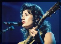 Photograph of Amy Grant taken during her 1998 Behind the Eyes tour.